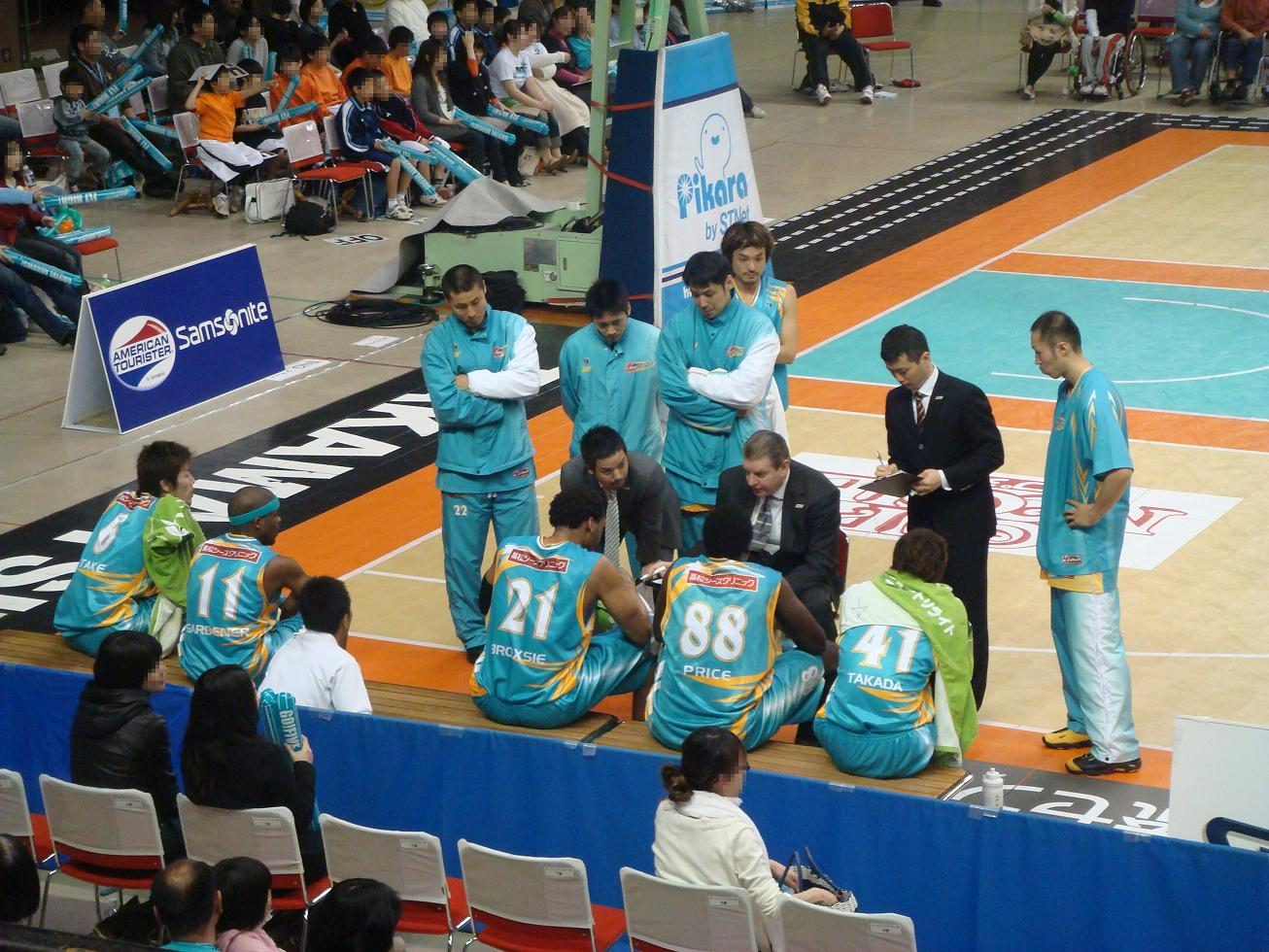 takamatsufivearrows